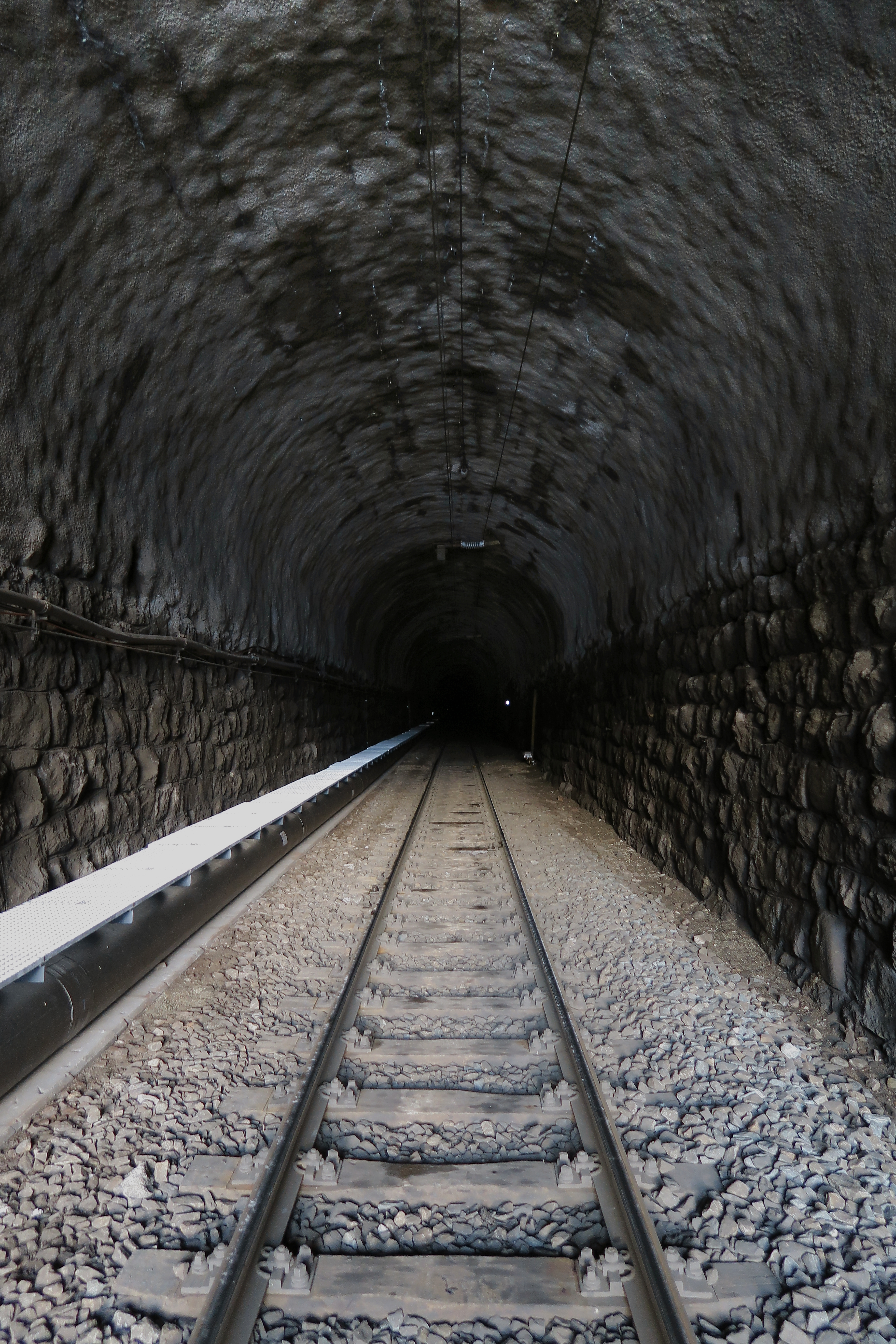 A view into the 111 years old tunnel. Except of the new pipe there can nothing be seen of the preparatory operations. Some blasting works for 12 cross-links to the future tunnel were already made. In 2021 this tunnel is converted into a safety tunnel. Switzerland, Dec 25, 2014.